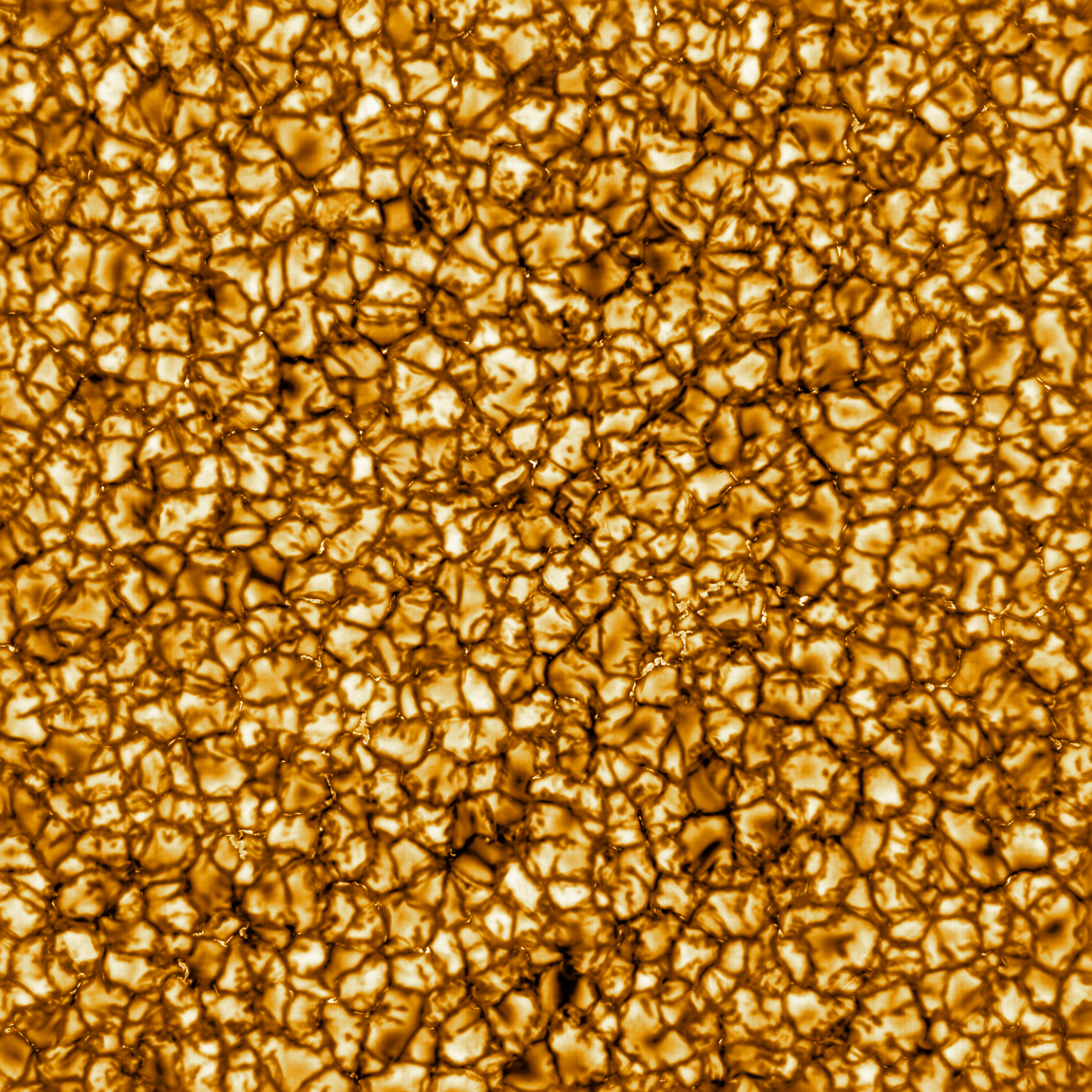 The Daniel K. Inouye Solar Telescope has produced the highest resolution image of the sun's surface ever taken. In this picture, taken at 789 nanometers (nm), we can see features as small as 30km (18 miles) in size for the first time ever. The image shows a pattern of turbulent, “boiling” gas that covers the entire sun. The cell-like structures -- each about the size of Texas -- are the signature of violent motions that transport heat from the inside of the sun to its surface. Hot solar material (plasma) rises in the bright centers of “cells,” cools off and then sinks below the surface in dark lanes in a process known as convection. In these dark lanes we can also see the tiny, bright markers of magnetic fields. Never before seen to this clarity, these bright specks are thought to channel energy up into the outer layers of the solar atmosphere called the corona. These bright spots may be at the core of why the solar corona is more than a million degrees.